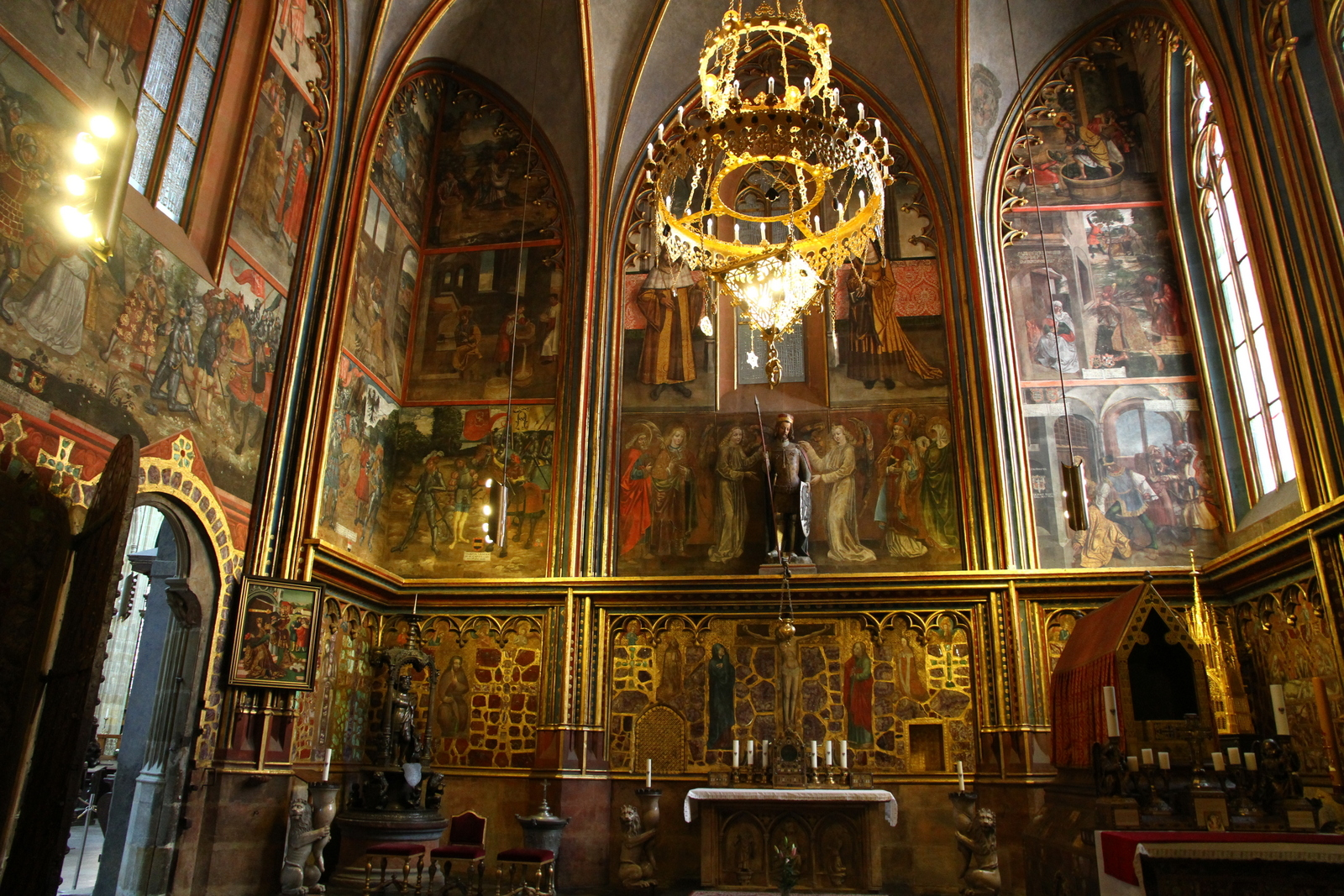 St. Wenceslas Chapel in St. Vitus Cathedral